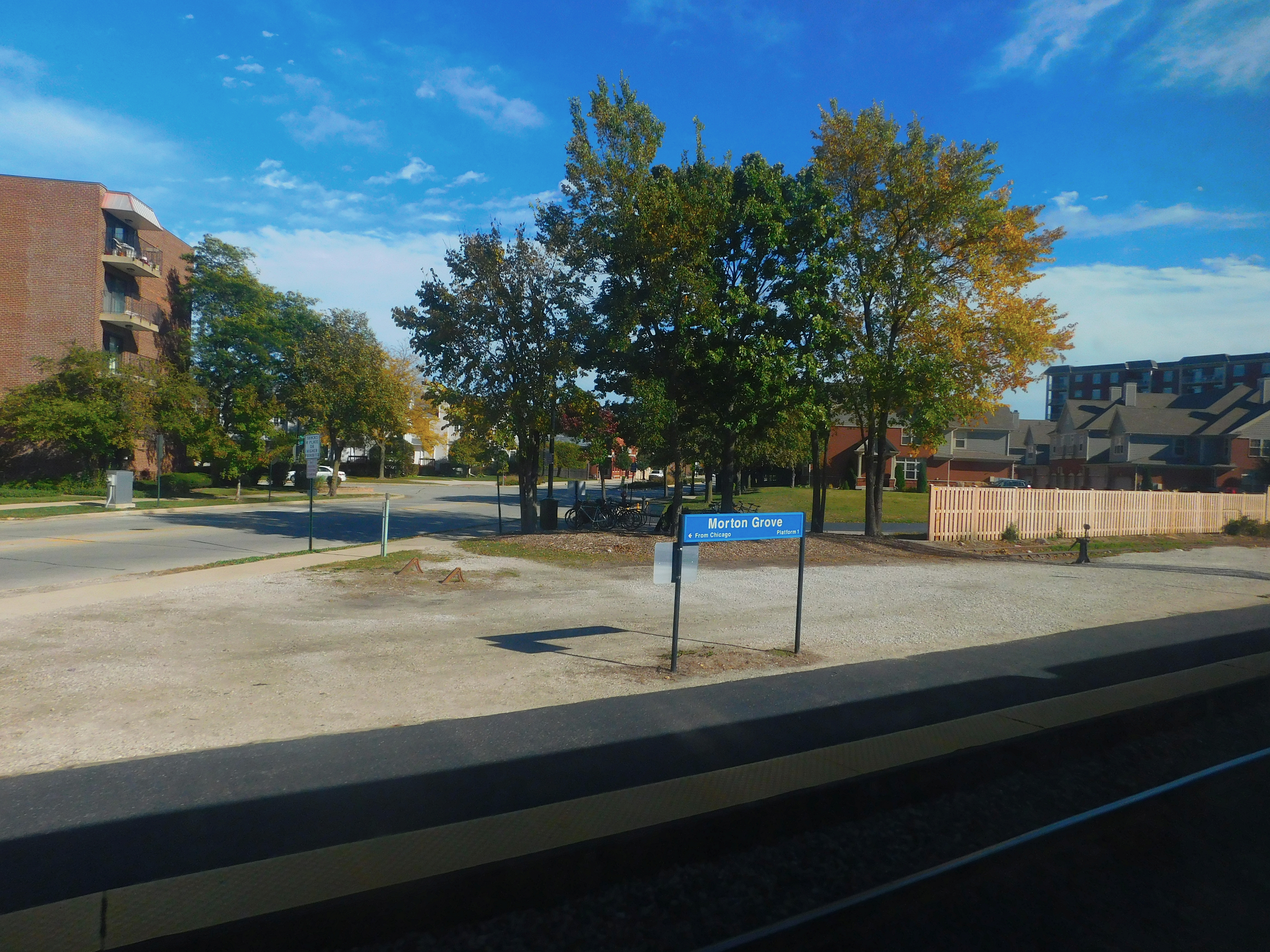 Morton Grove Station, Morton Grove, Illinois.